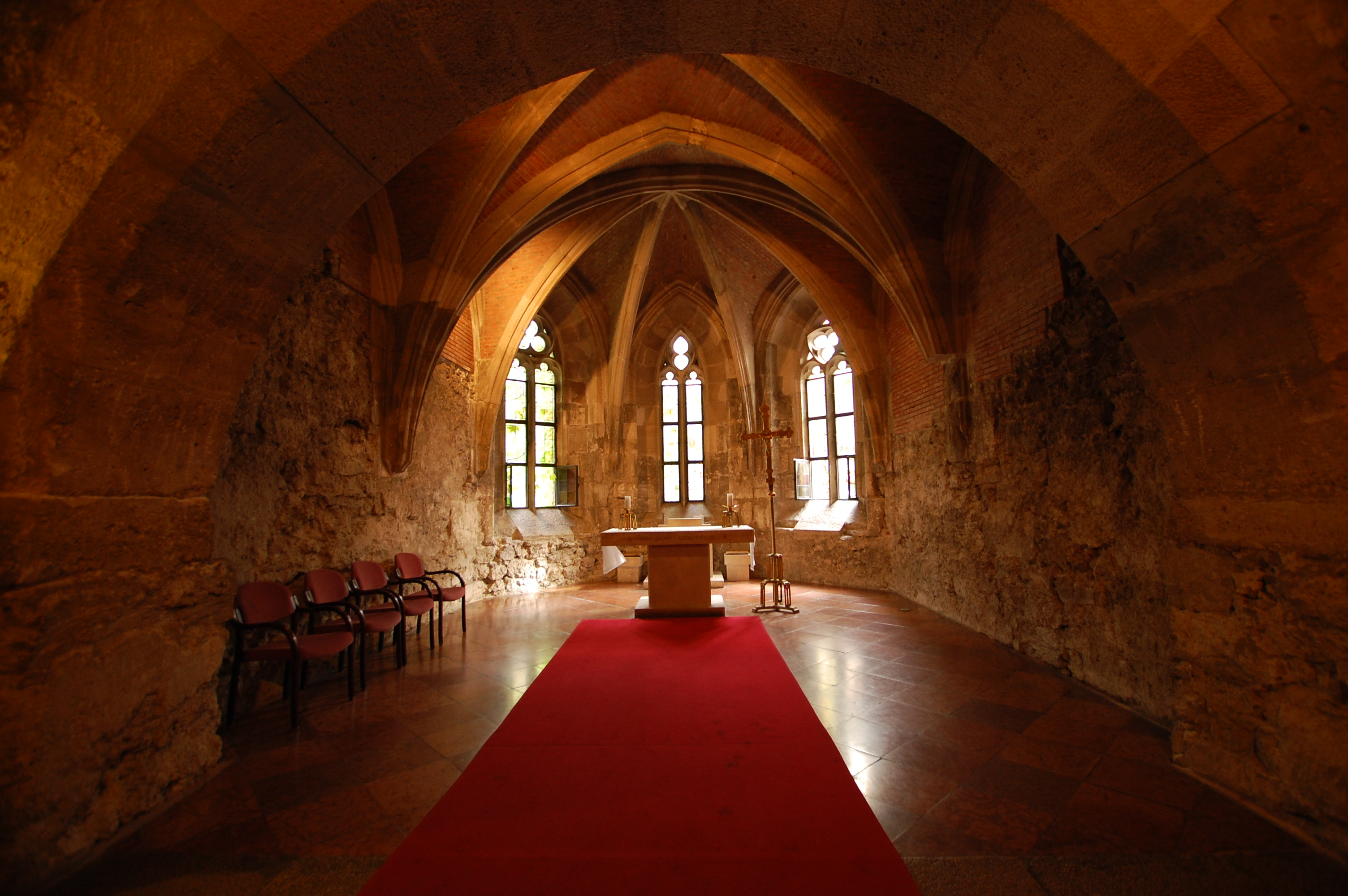 Buda castle Történeneti múzeum része??